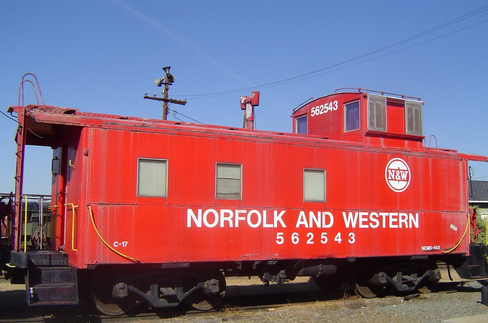 North Carolina Transportation Museum